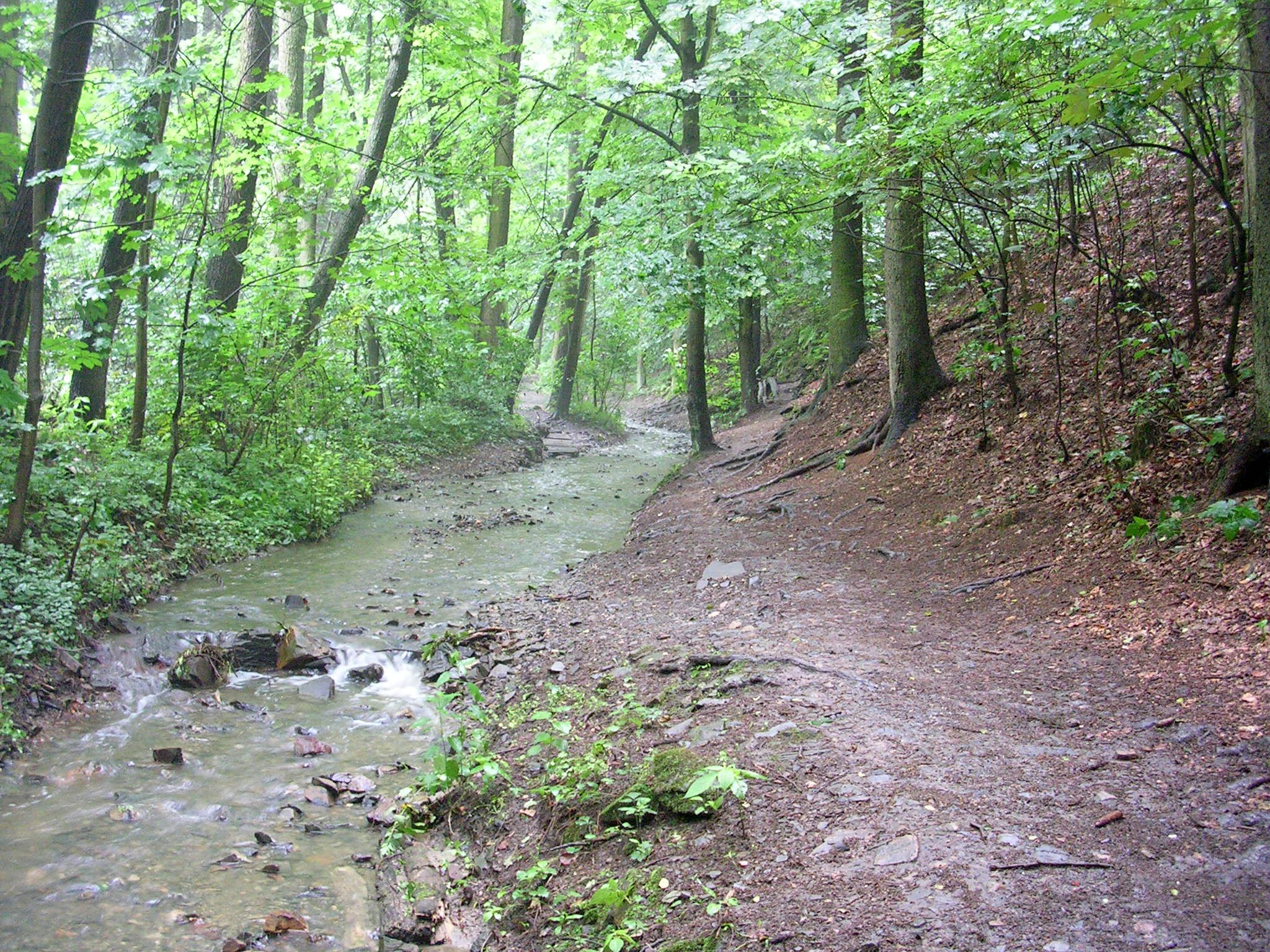 Prague-Čimice and Zdiby-Brnky, the Czech Republic. Drahan Valley. - Google Maps - Google Earth